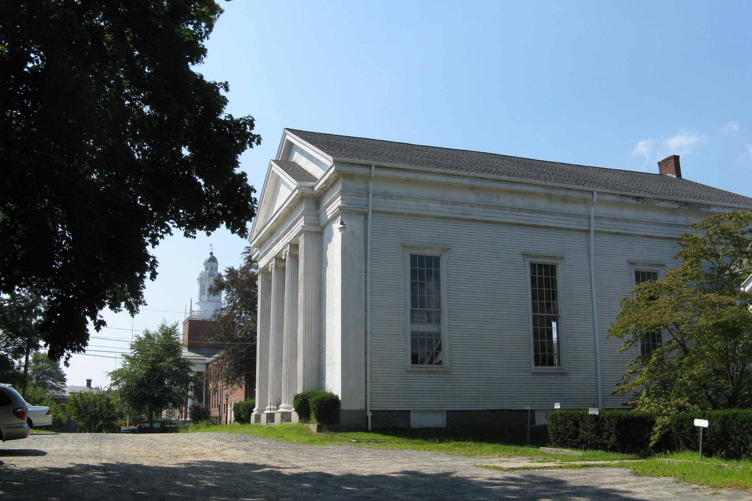 First Parish, Bridgewater Massachusetts